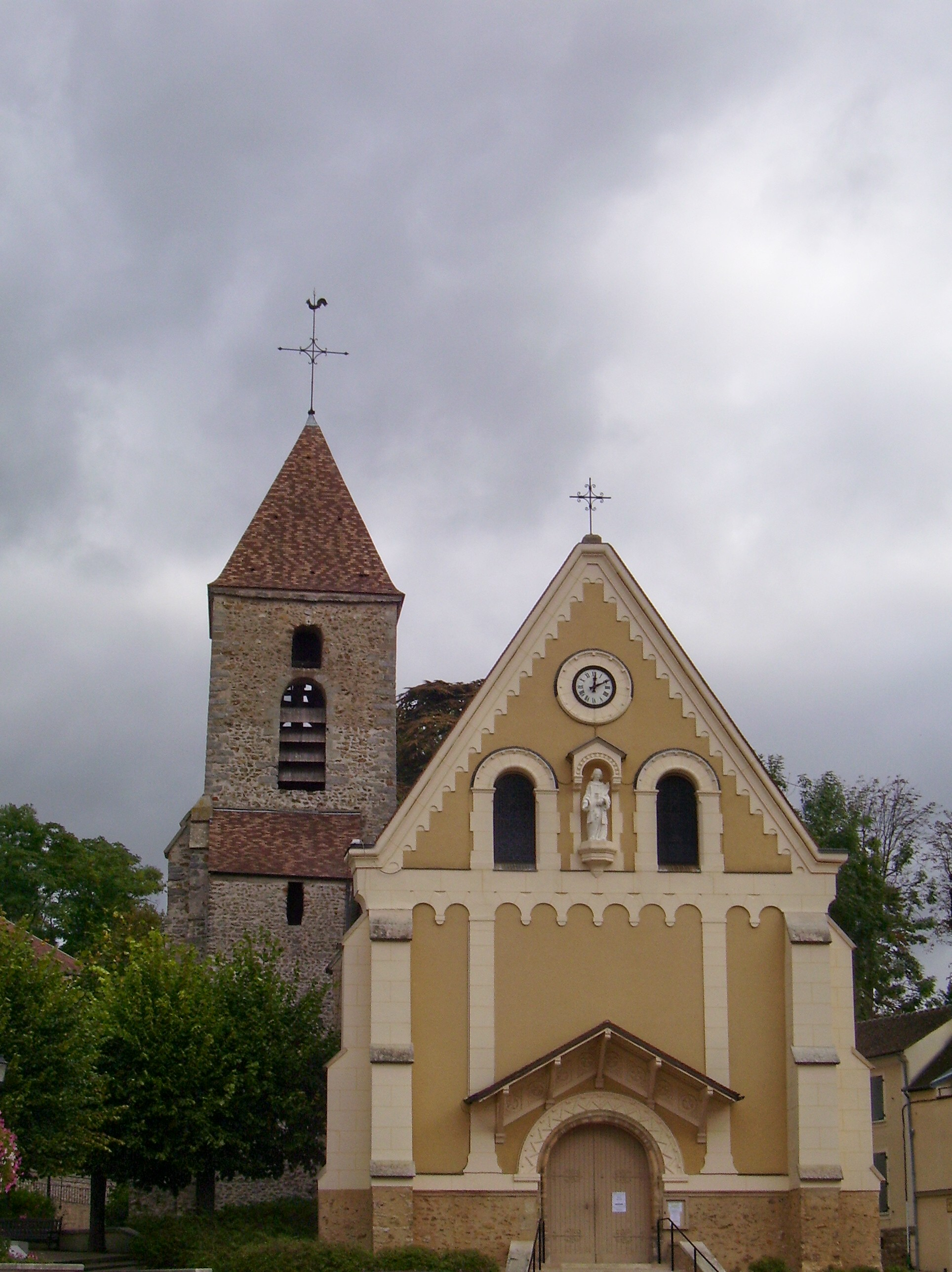 Saint-Honest church, Yerres, Essonne, France